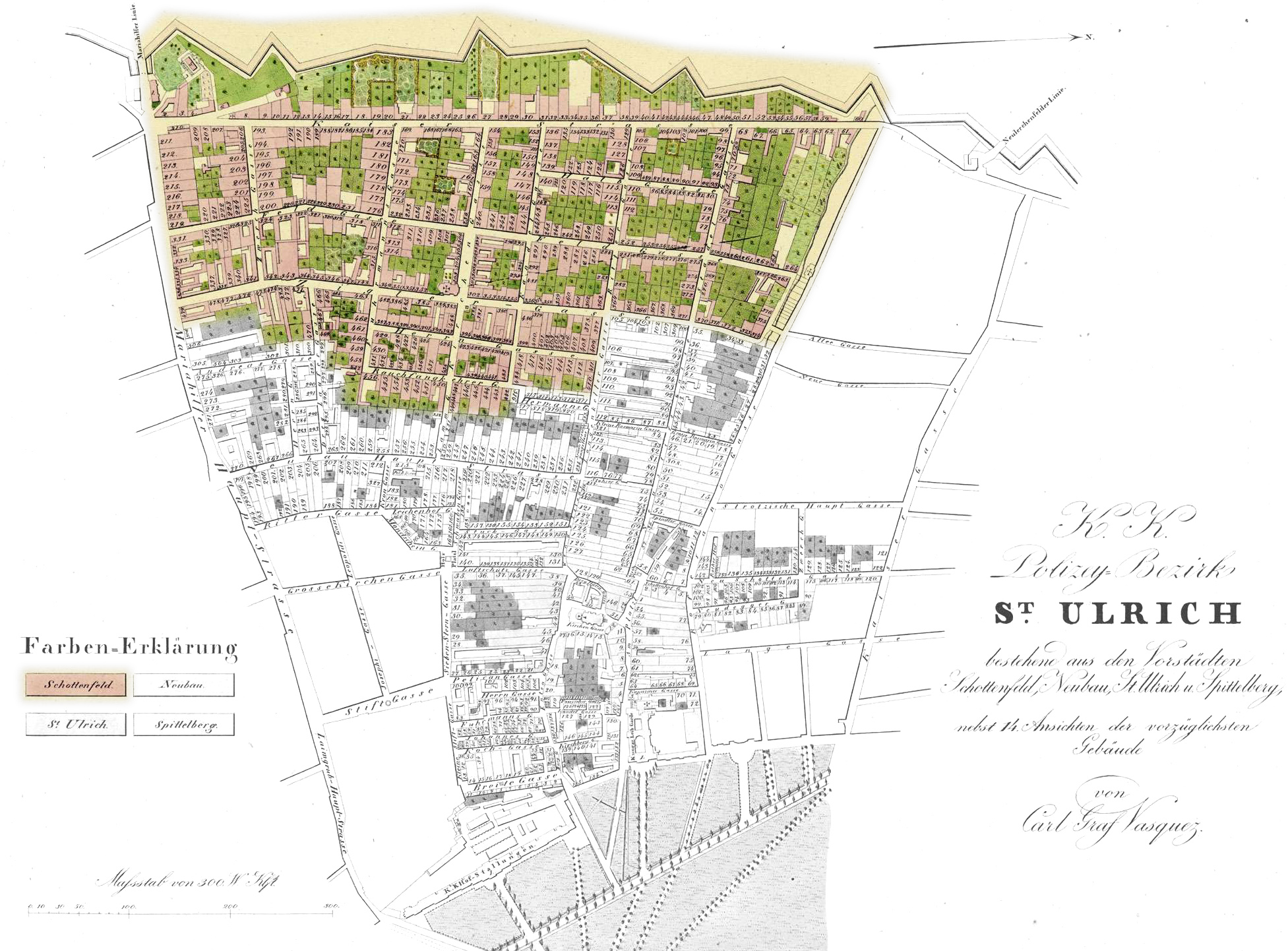 Map of Vienna / Schottenfeld, approx. 1830